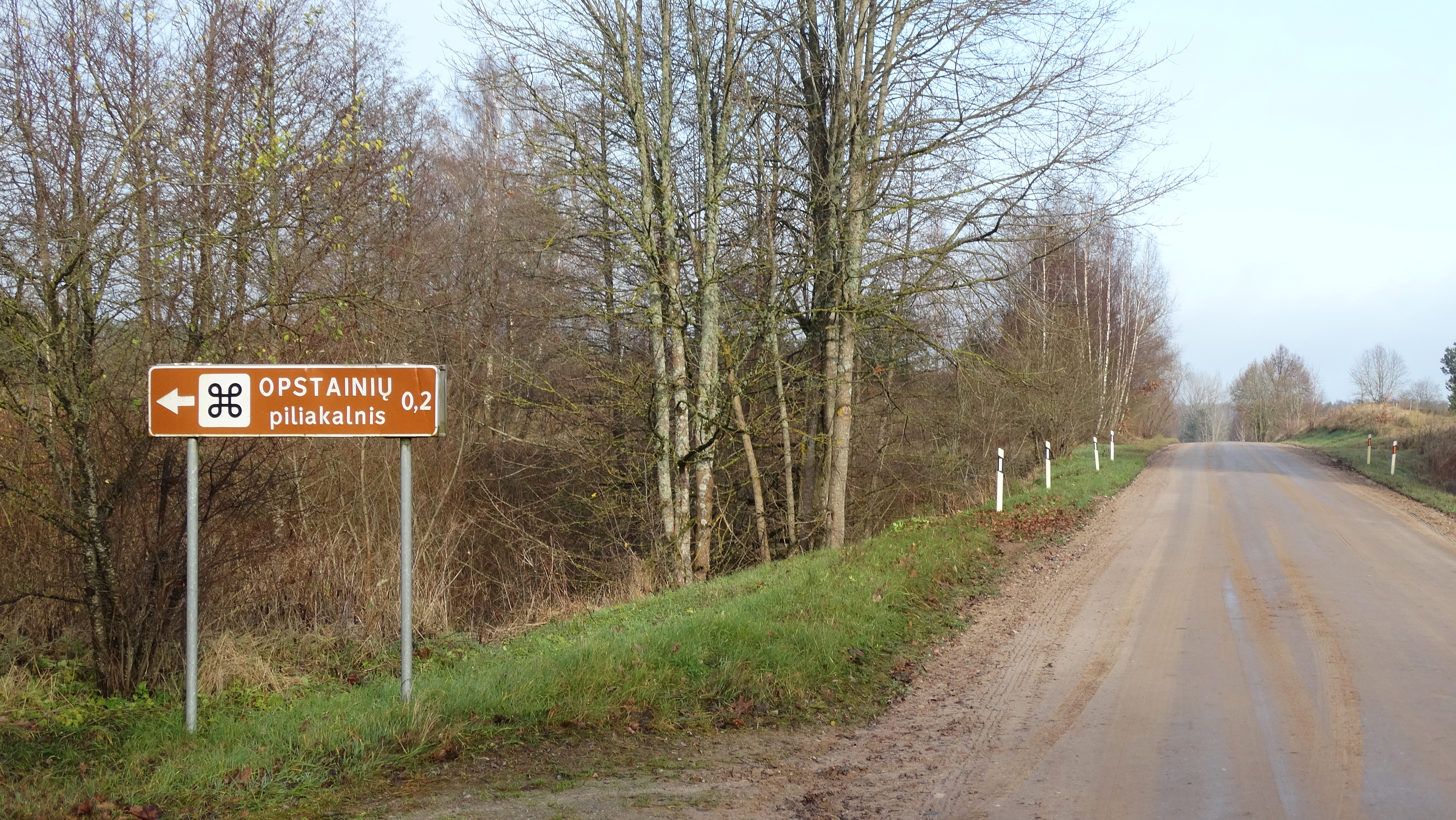 Opstainys hillfort II, Pagėgiai Municipality, Lithuania